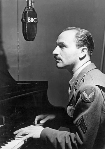 Publicity still of Marc Blitzstein in U.S. Army Air Corps uniform at the BBC in London, 1943.